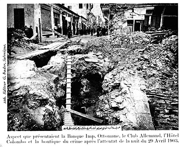 Under the building of Ottoman Bank after blow up, april 1903